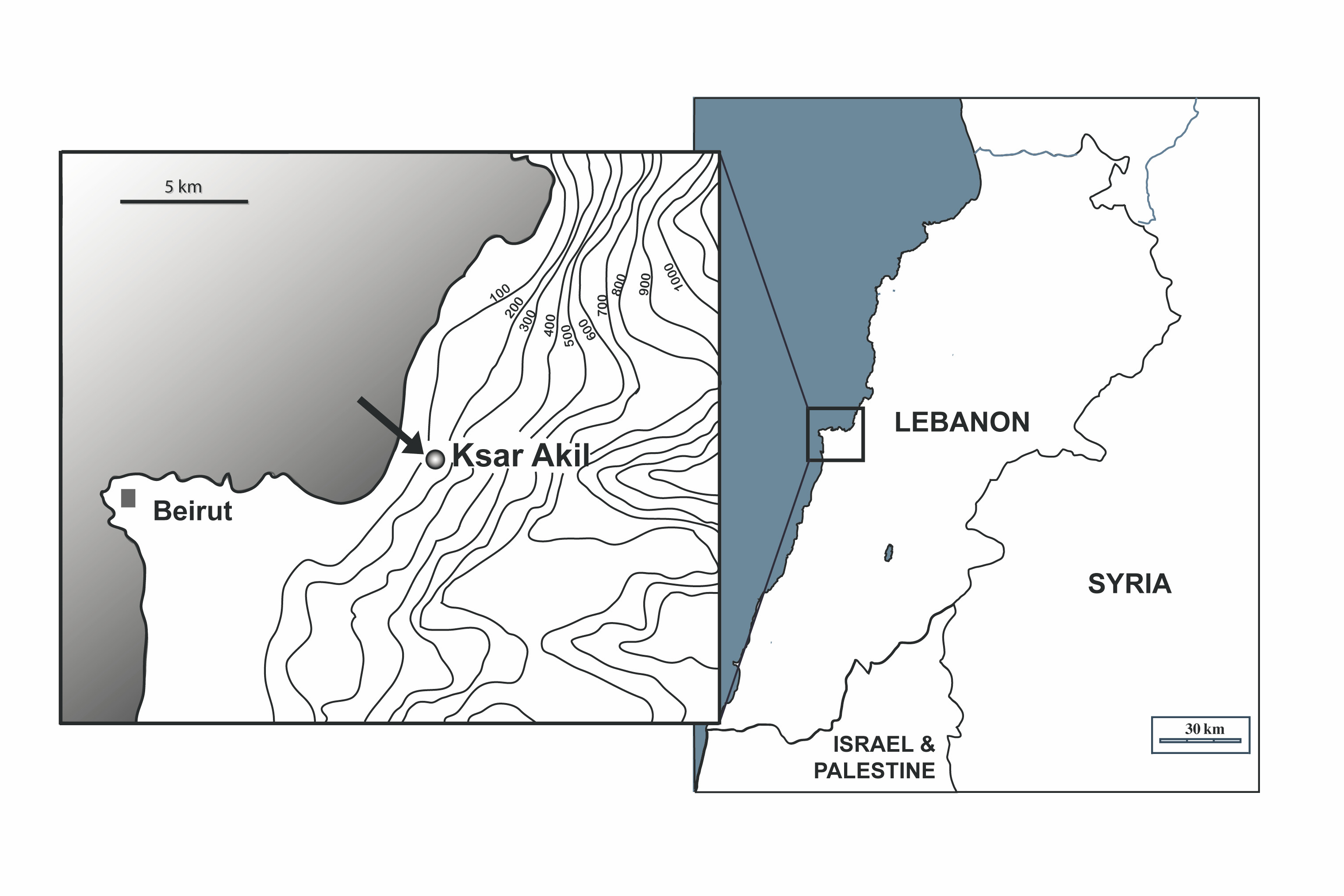 Location of Ksar Akil in Lebanon